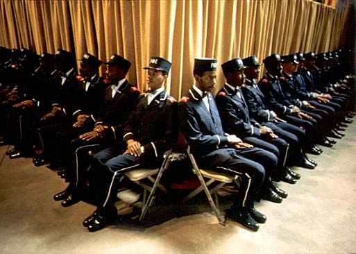 `The Fruit of Islam,` a special group of bodyguards for Muslim leader Elijah Muhammad, sits at the bottom of the platform while he delivers his annual Savior`s Day message in Chicago.